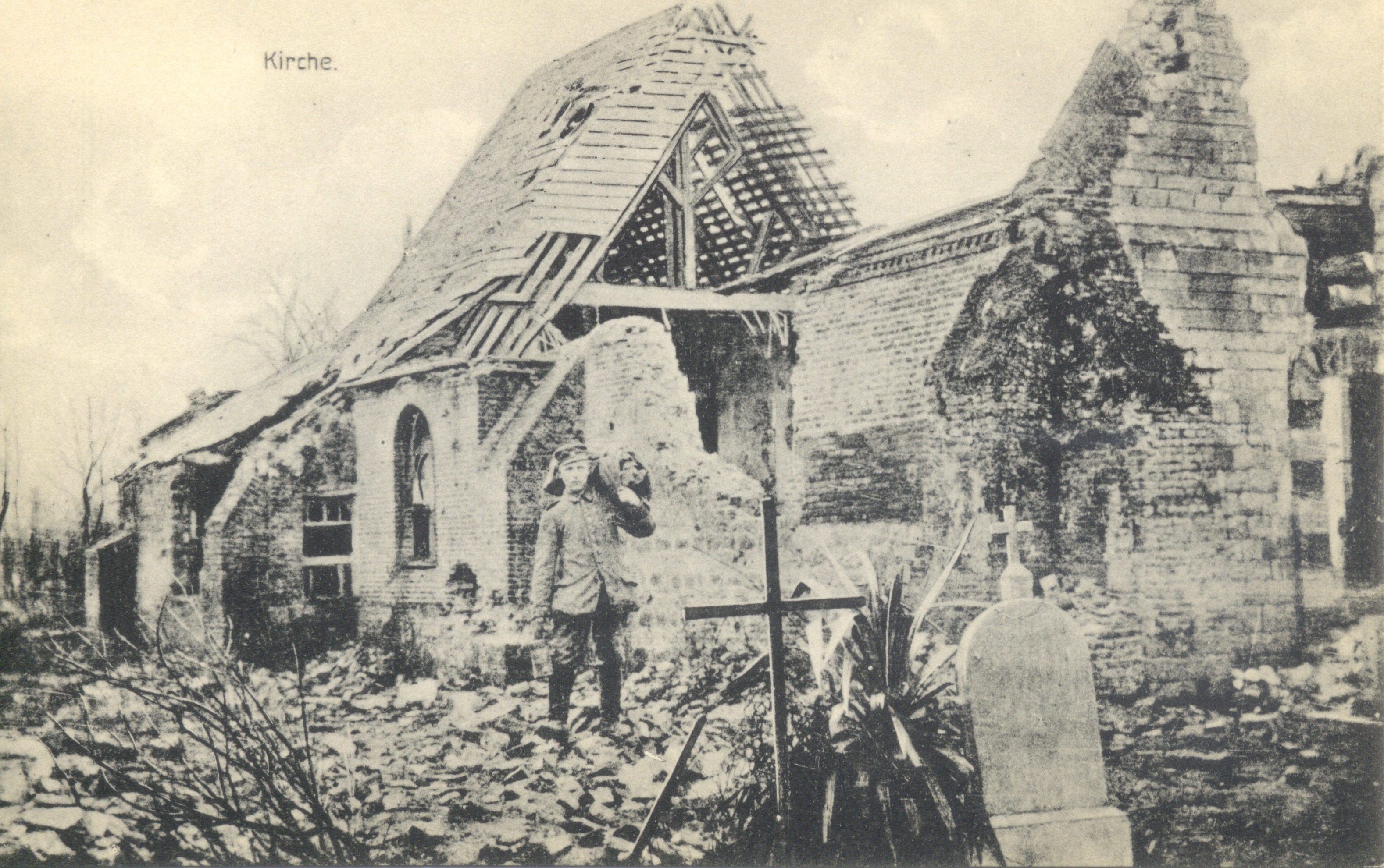 Persistent URL: Subject: World War I; Lost architecture; Churches; War damage; France--La Chavatte; miami digital collections; bowden postcard collection